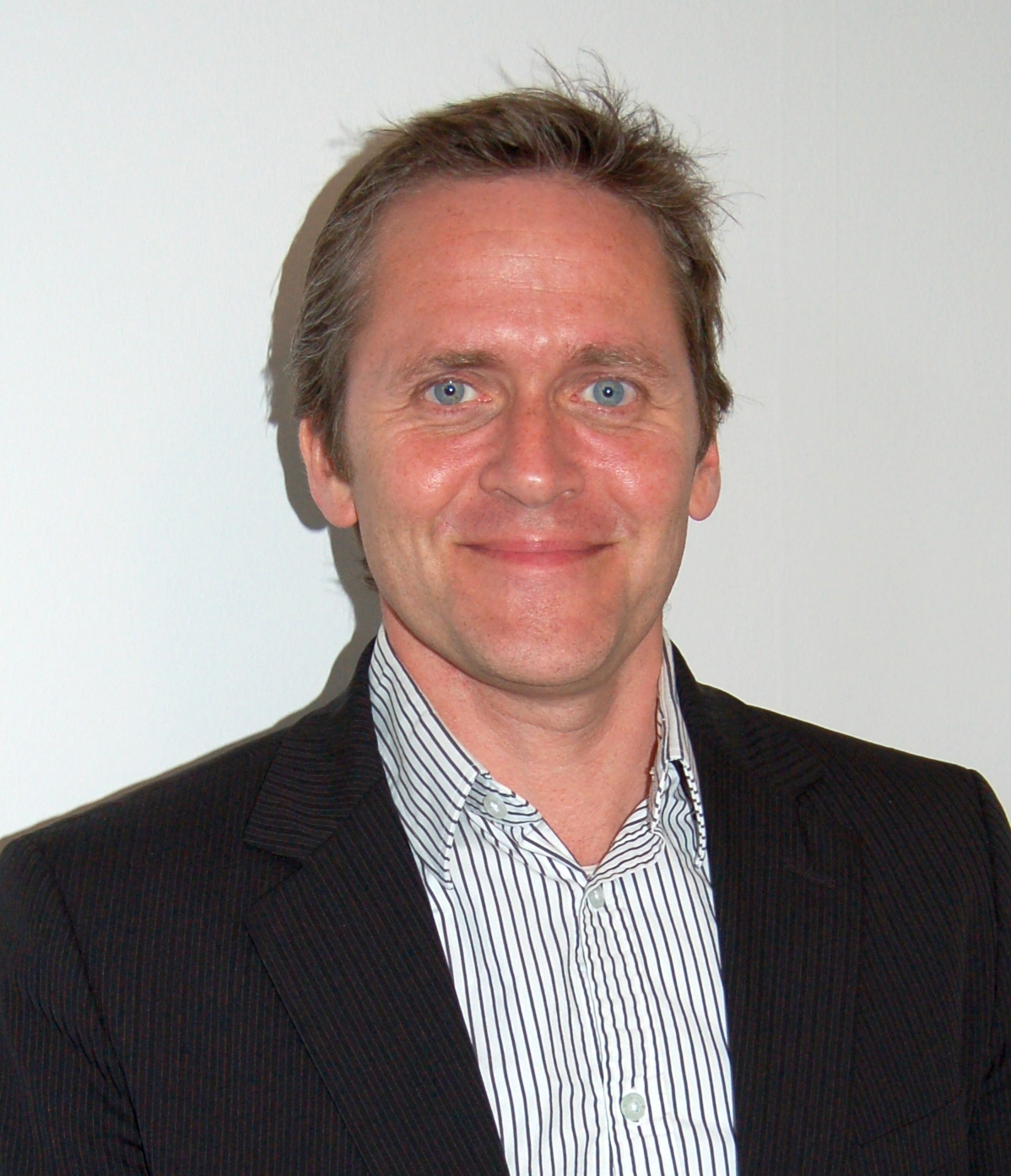 Photo of the danish politician Anders Samuelsen